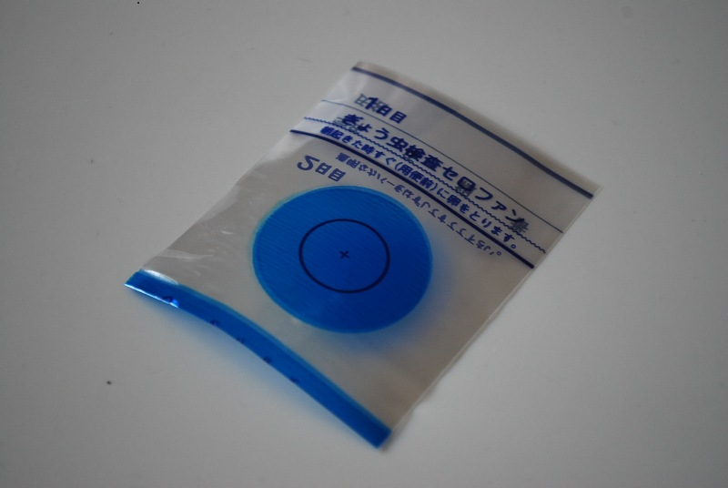 nspection with the cellophane tape of Oxyuridae,Japan